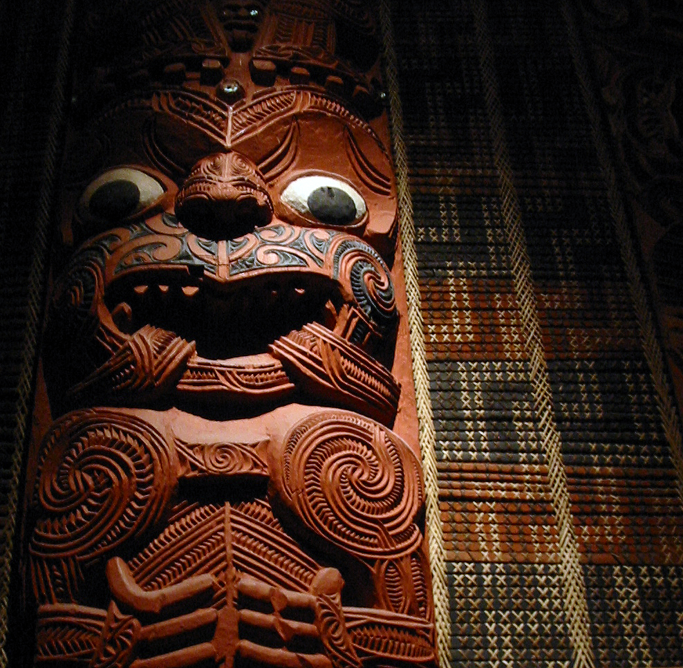 Detail of carved post from the Maori meeting house Hotunui, Ngati Maru, Hauraki, 19th Century. Tukutuku wall panels visible to right of post. Hotunui was built in 1878 and now stands in the Auckland War Memorial Museum, New Zealand.